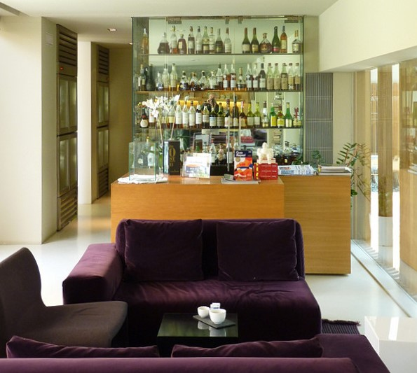 Bar room in Spanish restaulant "El Celler de Can Roca".